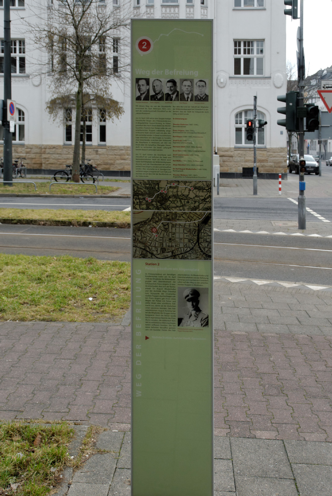 Station 2 of Road to Liberation, Jürgensplatz in Düsseldorf-Unterbilk, Germany